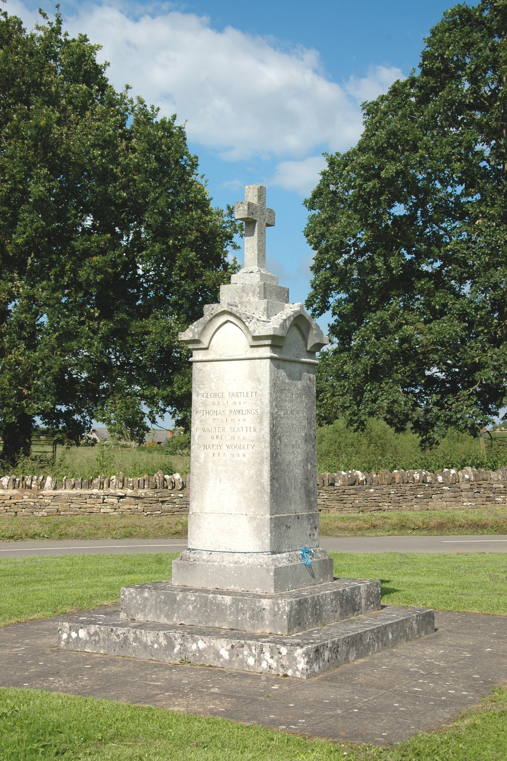 Combe, Oxfordshire: war memorial